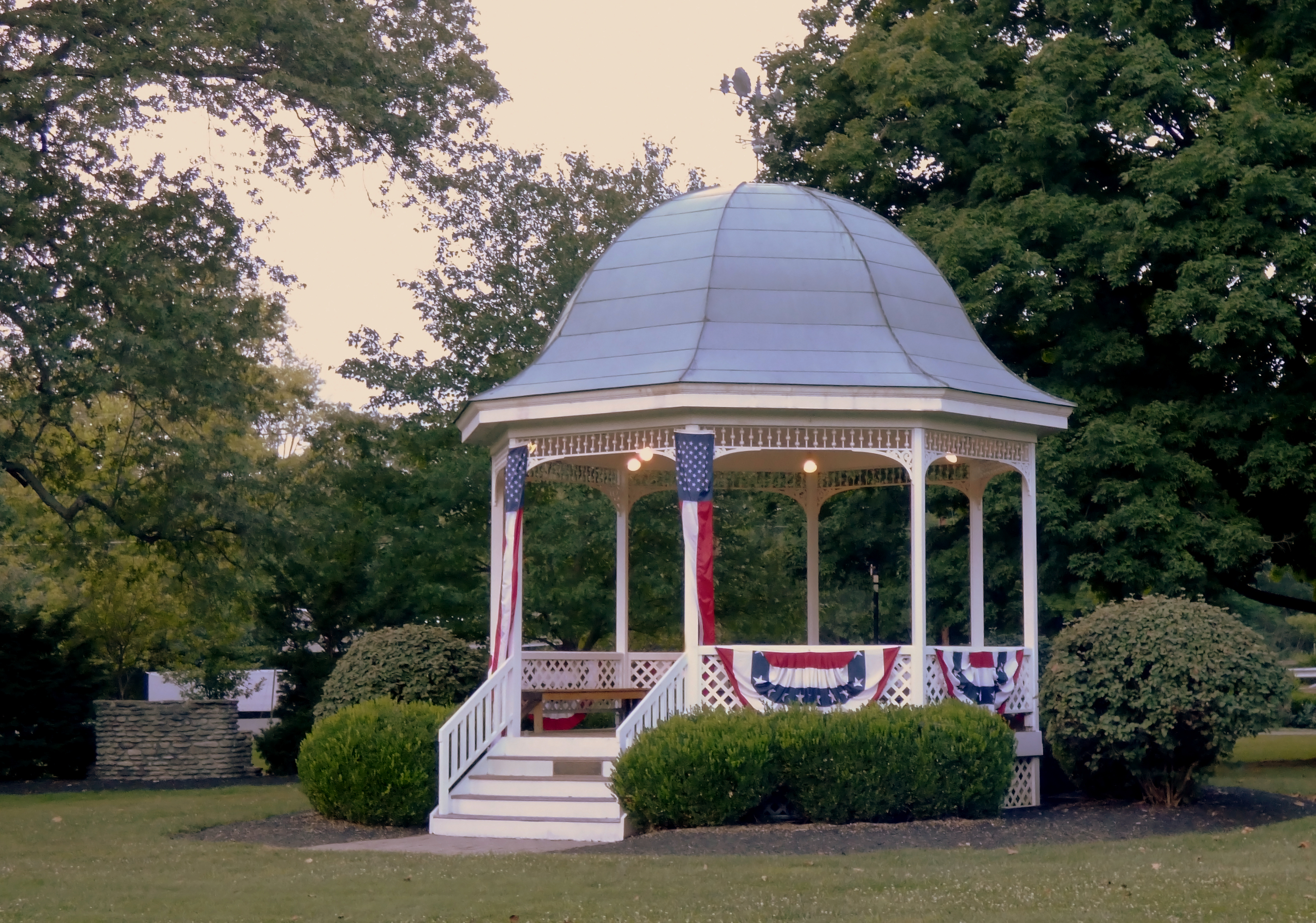 Terrace Park Ohio Gazebo